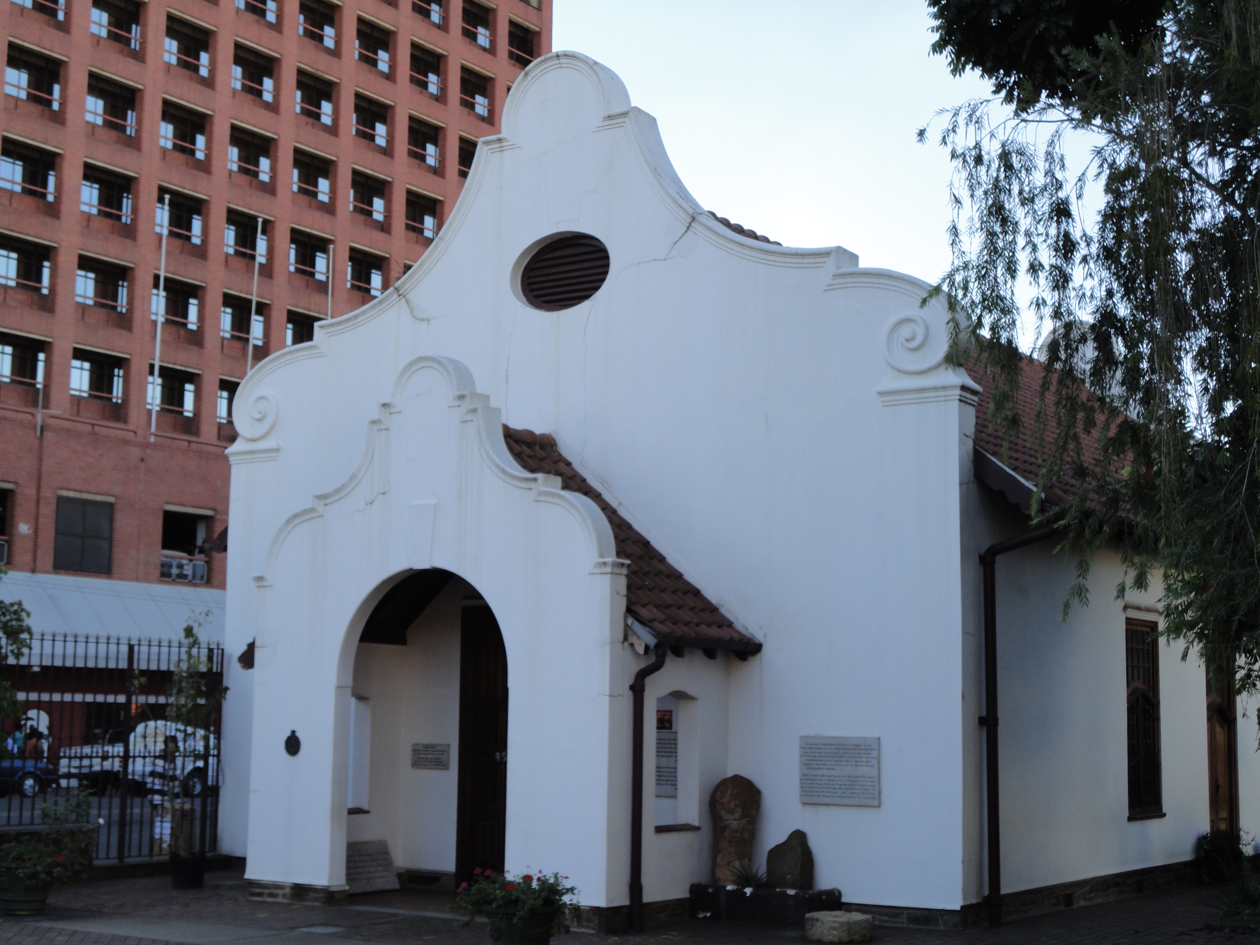 The Church of the Vow in Pietermaritzburg is currently the Voortrekker Museum.